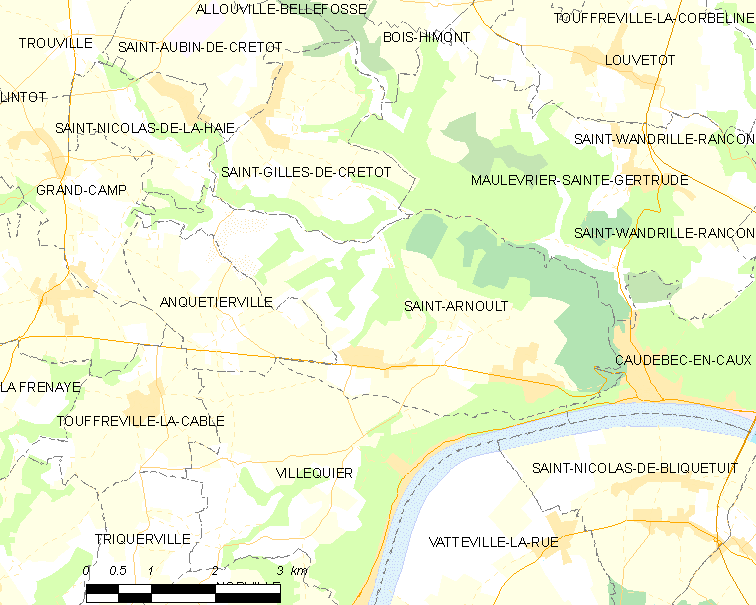 Map of French municipality Saint-Arnoult